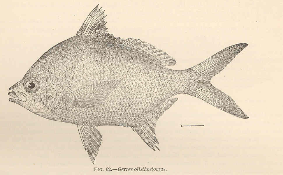 Gerres olisthostomus Goode & Bean. Mojarra; Irish Pompano. Mutton-fish Subject: Osteichthyes, Gerres Tag: Fish